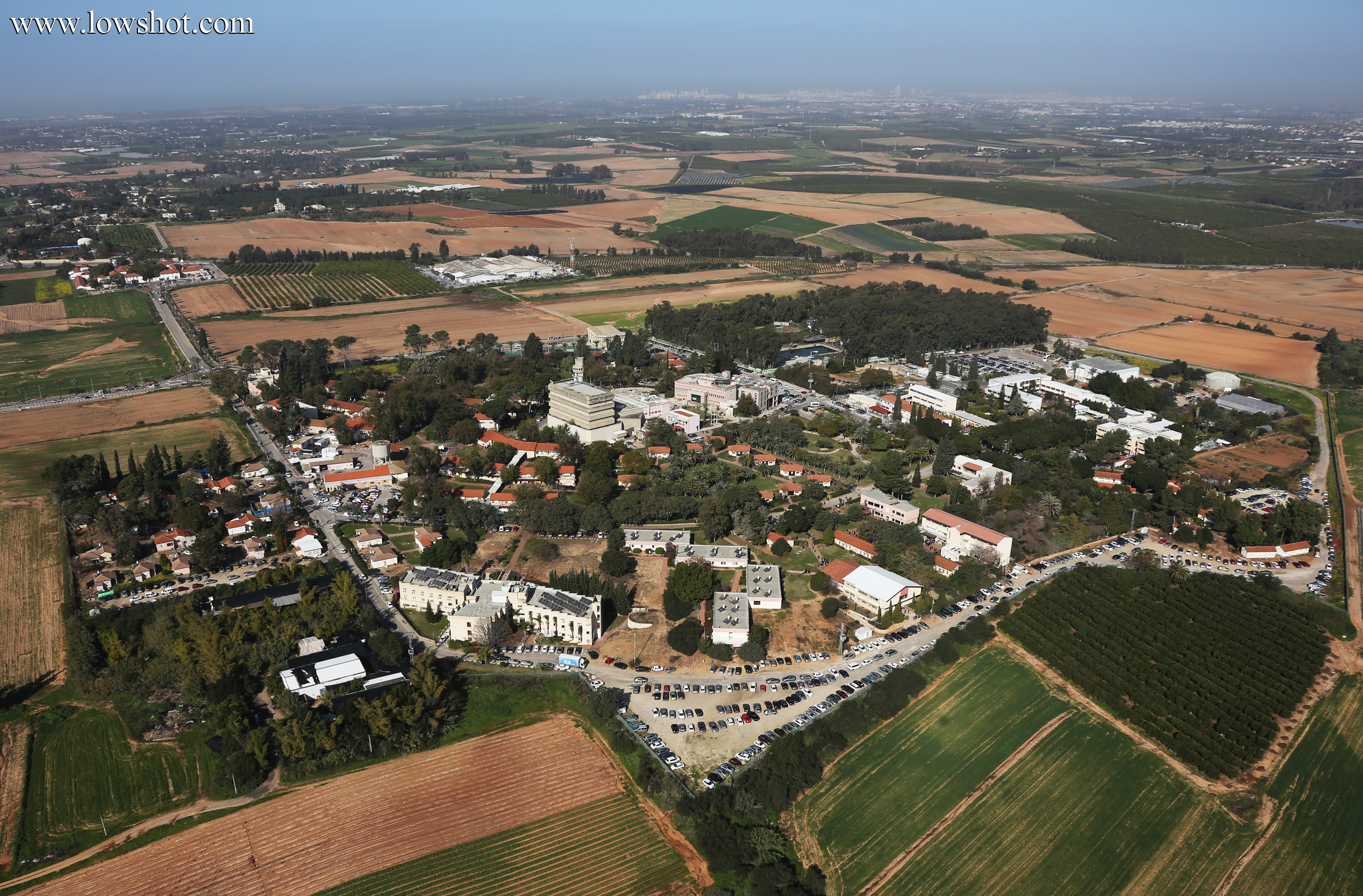 Beir Berl Academy